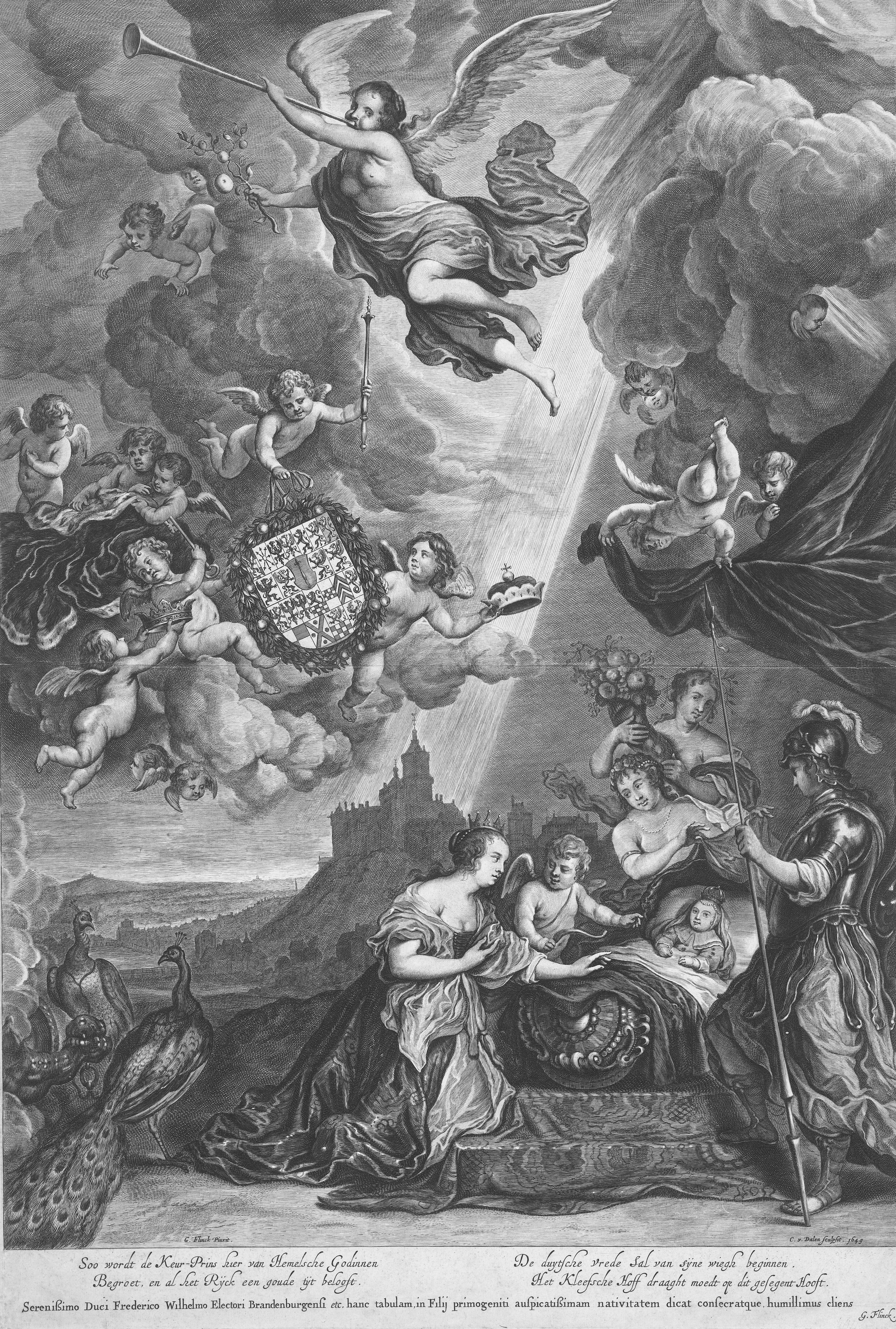 Allegory of the birth and death of Wilhelm Heinrich, prince elector of Brandenburg (1648-1649), son of Frederick William, Elector of Brandenburg (1620–1688), Schwanenburg Castle is located in the background landscape. Cornelis van Dalen (II), after Govert Flinck, 1649